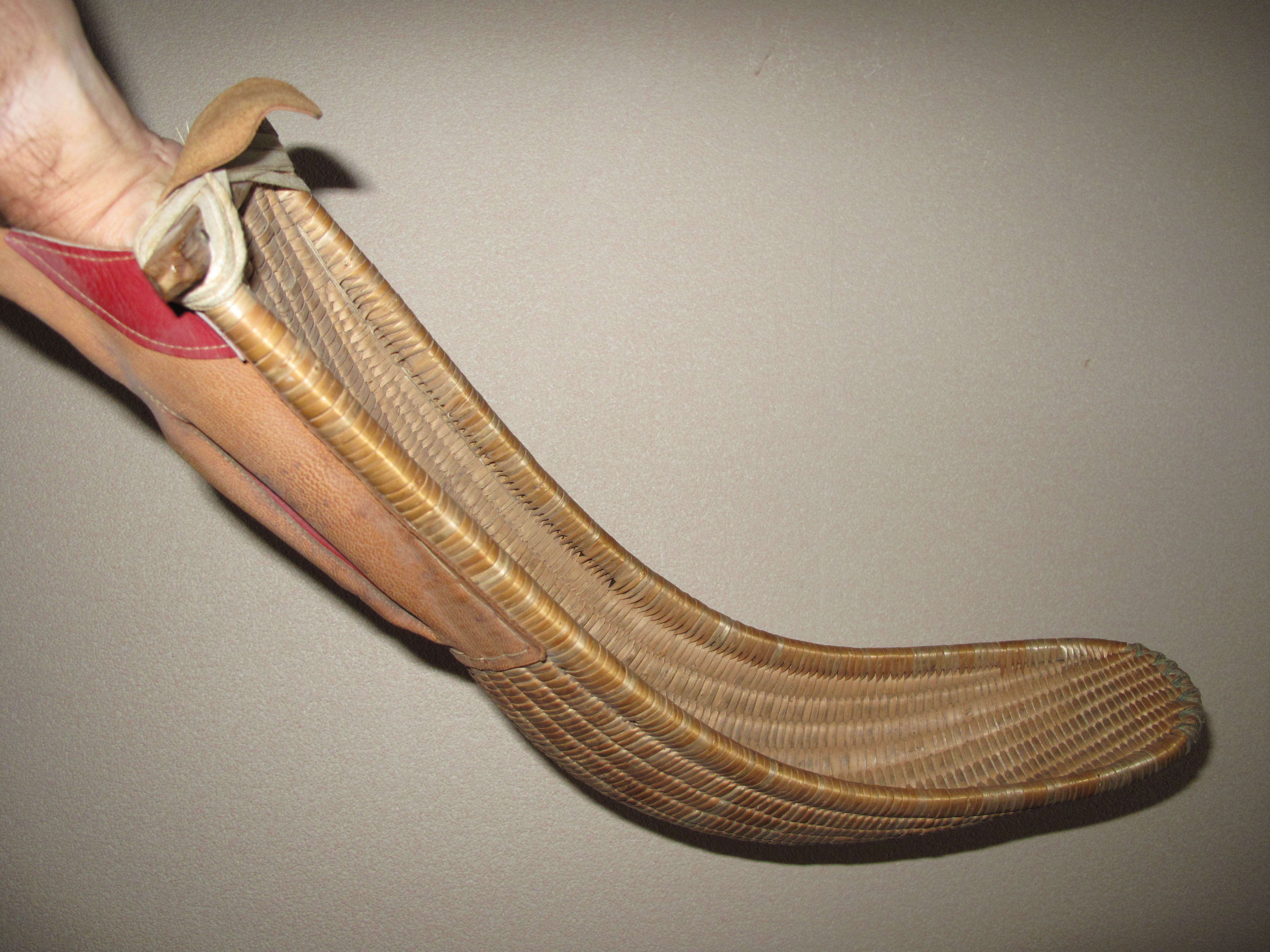 Little chistera. Made in Mauléon-Licharre, France, circa 1963